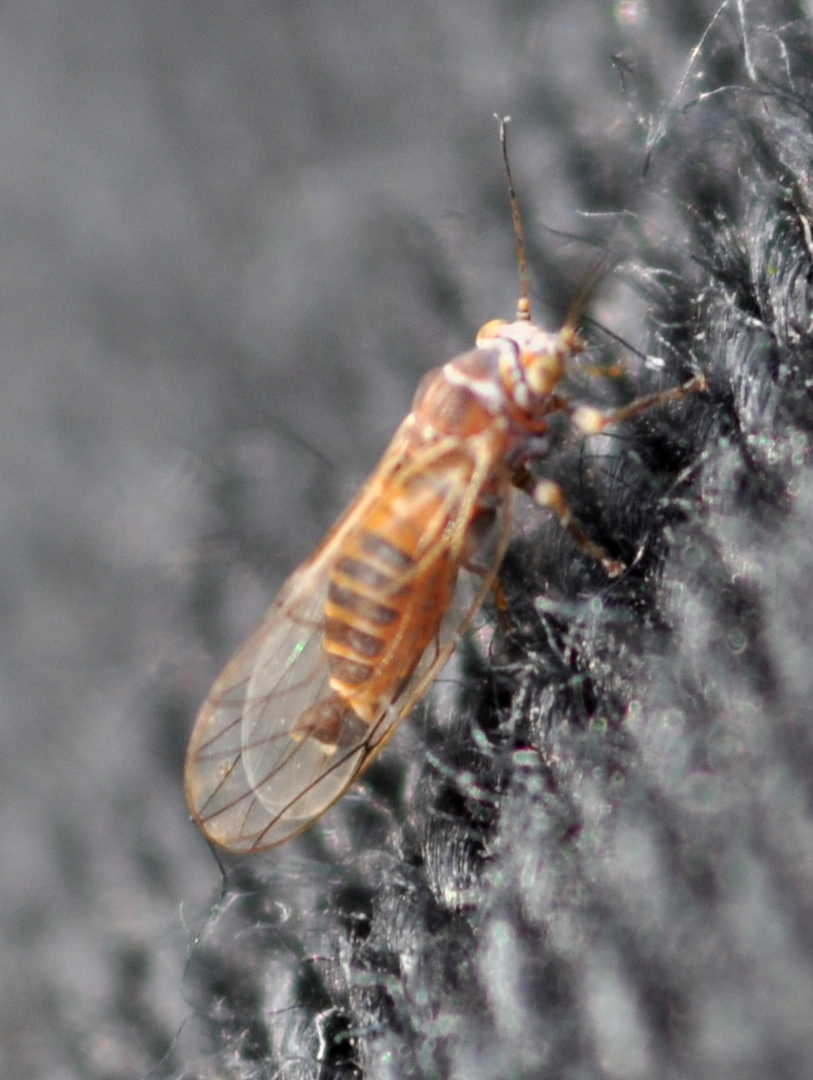 Bug Cacopsylla brunneipennis probably male in Kirchwerder, Hamburg.